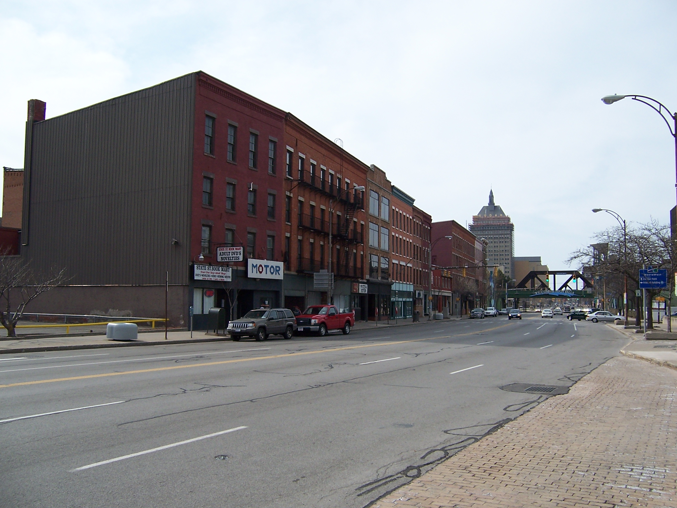 The State Street Historic District in Rochester, New York. The district is listed on the National Register of Historic Places. The Kodak Tower appears in the background, with scaffolding partially obscuring its facade.